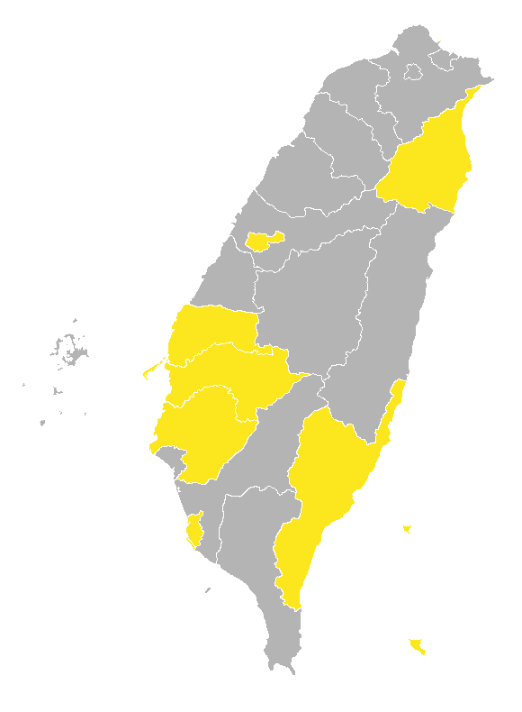 Counties and Cities in Taiwan where the Chinese Youth Party once held positions of either County Magistrate, City Mayor or Provincial Councillors.